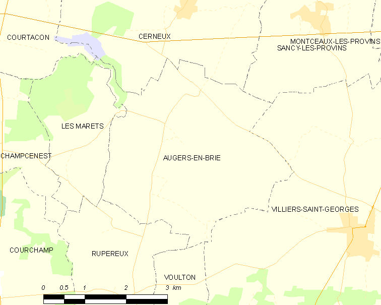 Map of French municipality Augers-en-Brie